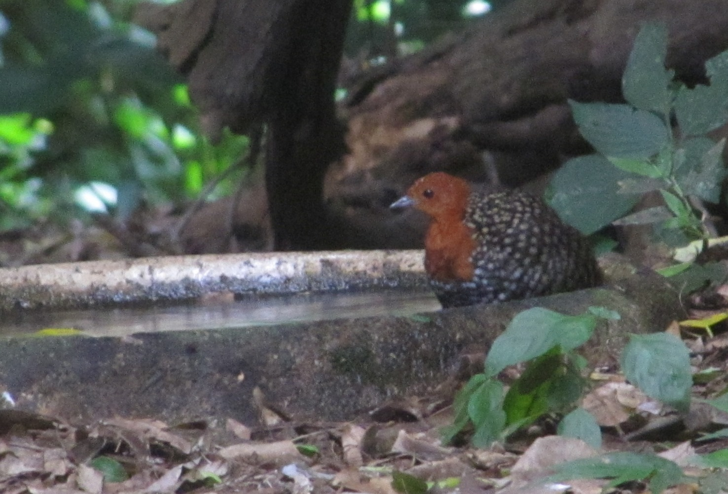 Male Buff-spotted Flufftail in Pigeon Valley, Durban, South Africa, on 26 Jan 2014